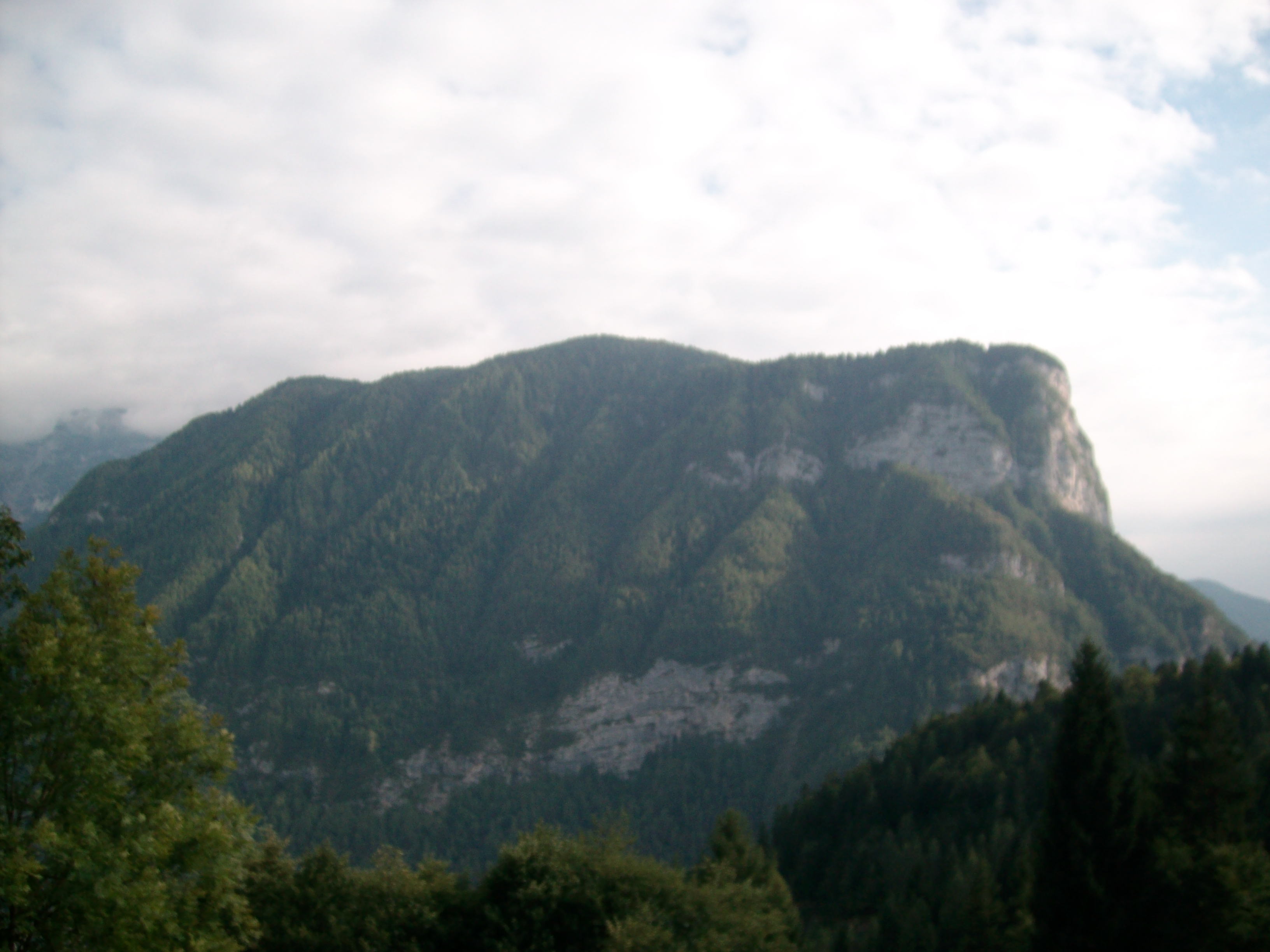 Mount Vederna seen by Solàn